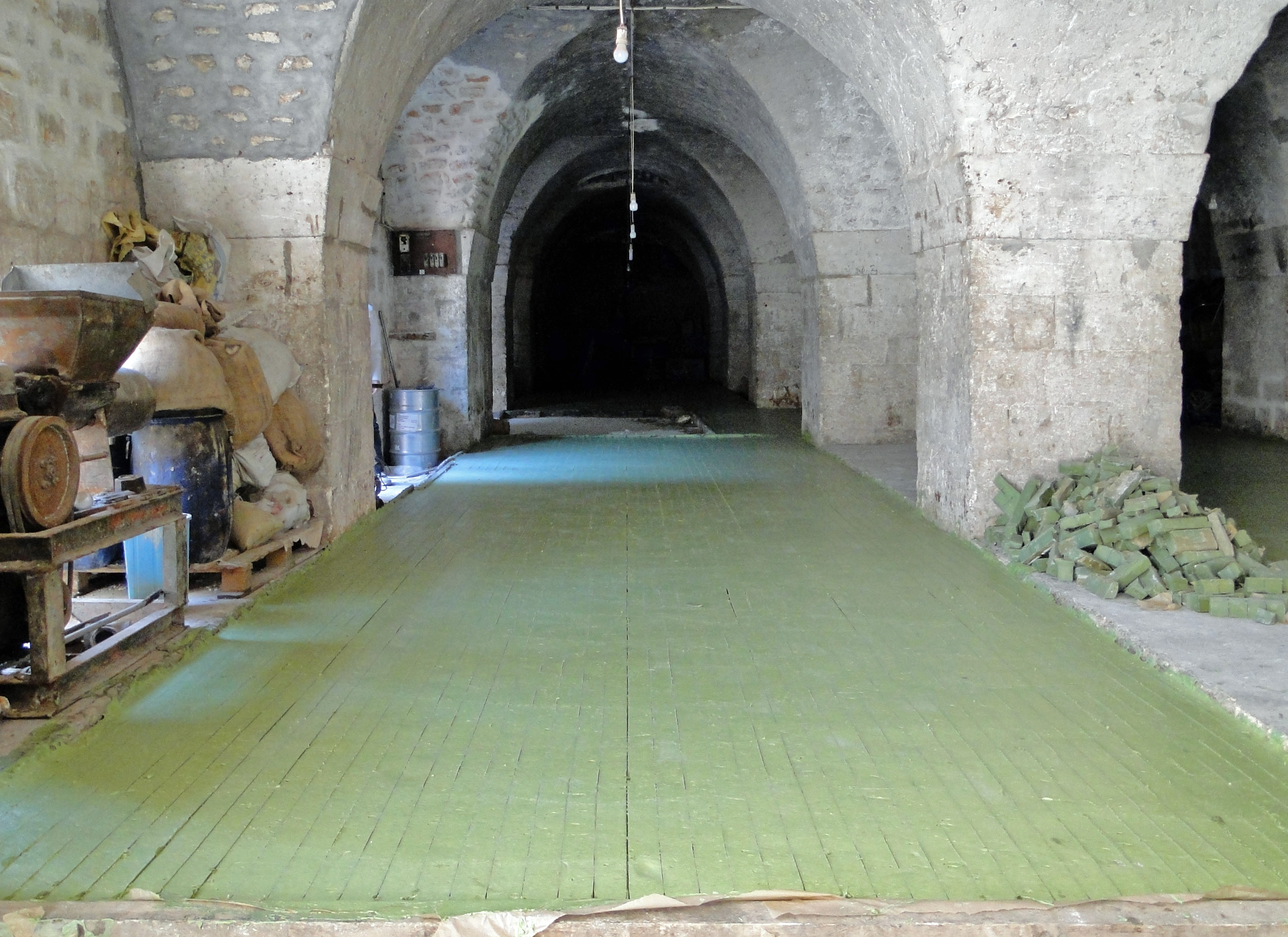 Aleppo soap at the Al-Jebeili factory, Aleppo, Syria